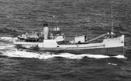 Aerial starboard view of coastal steamer SS Bombo prior to being commissioned by the RAN for services during World War 2. Cropped version of AWM collection photo no. 303010.